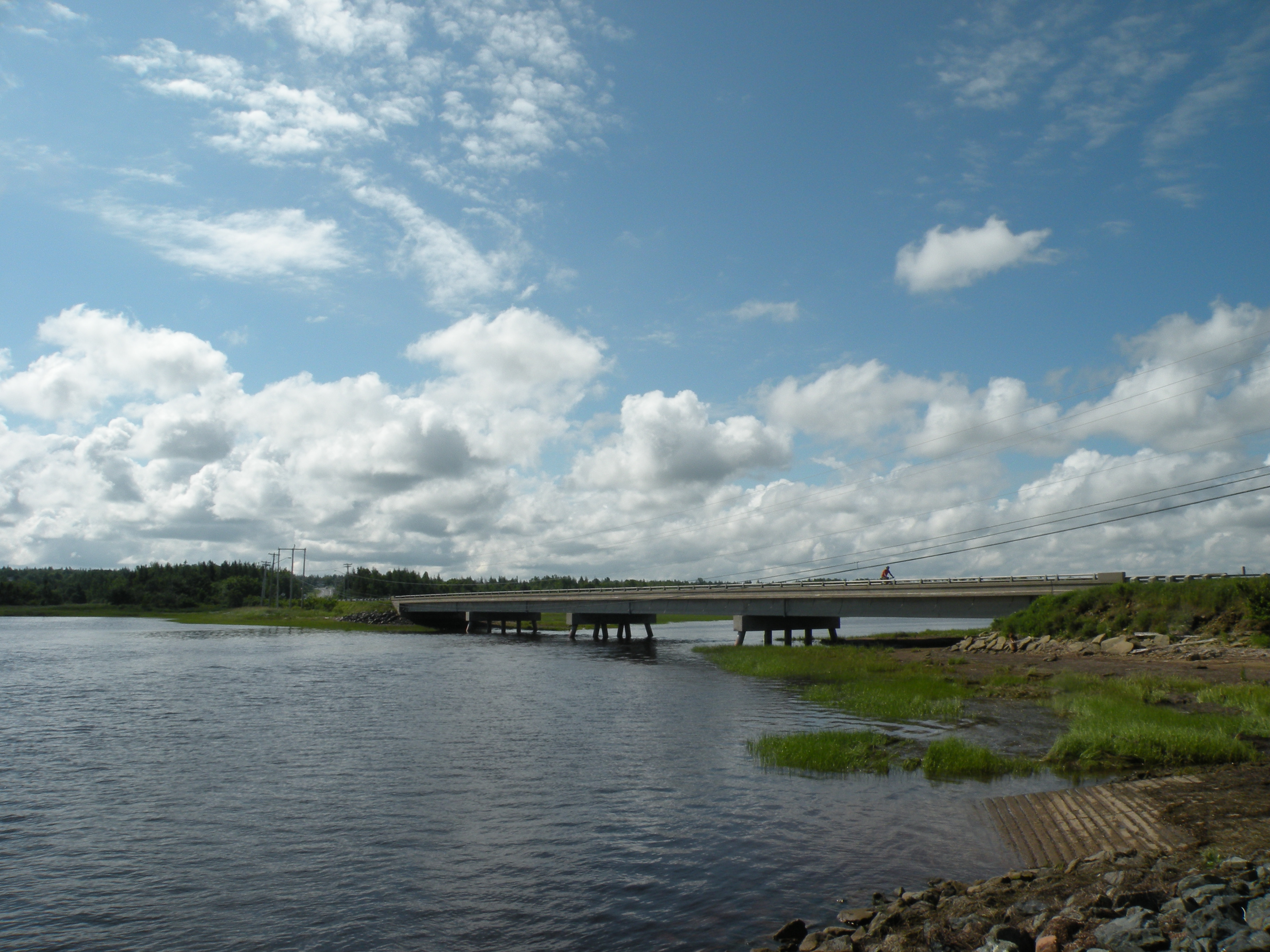 The route 11 bridge and a boat slip in Bertrand, New Brunswick.